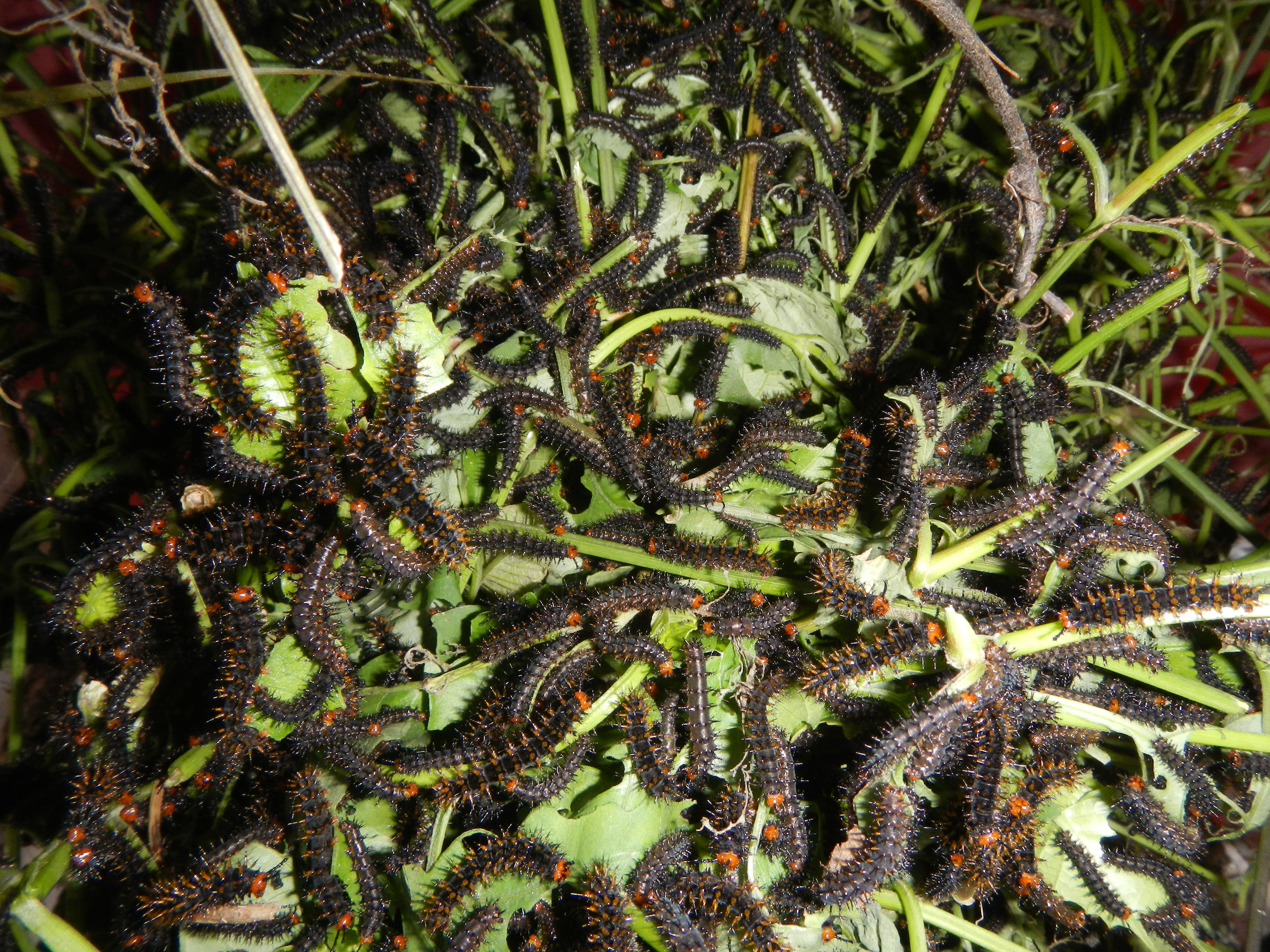 Pulilan, Bulacan Butterfly Haven and Resort in San Francisco Street in Barangay Poblacion, Pulilan, Bulacan Town Proper.